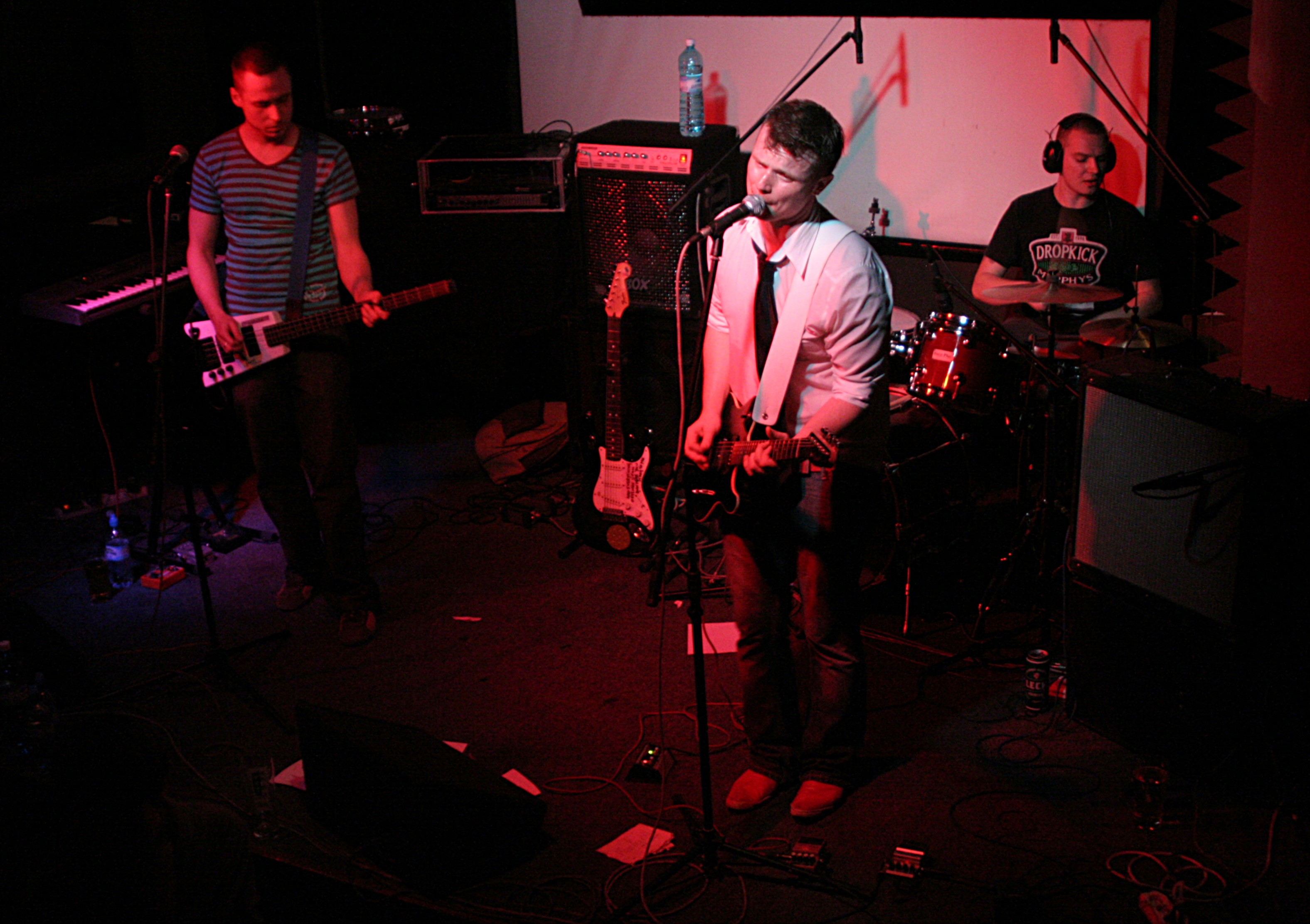 2007-04-14, Muchy at BlueNote, ltr: Piotr Maciejewski, Michał Wiraszko, Szymon Waliszewski